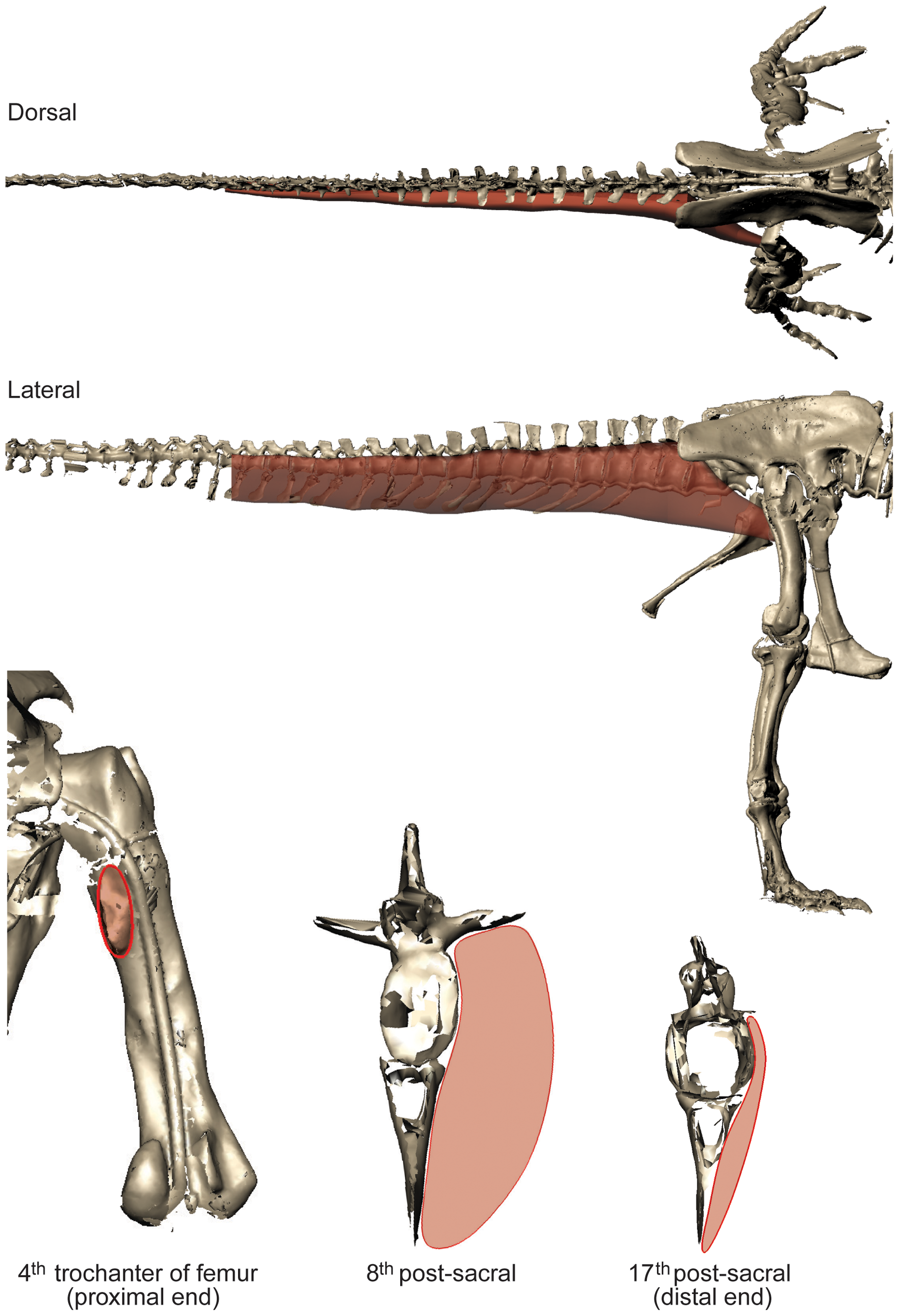 Muscle mass reconstruction method for M. caudofemoralis longus (see Methods); Carnegie specimen depicted. Dorsal and right lateral views are shown on top, and in the bottom row are caudal views of the right femur and then caudal vertebrae (8th and 17th). Red shaded volumes are the M. caudofemoralis longus reconstruction. Note a small space for M. caudofemoralis brevis (not reconstructed) is left around the ilium/sacrum and lateral to the CFL insertion.